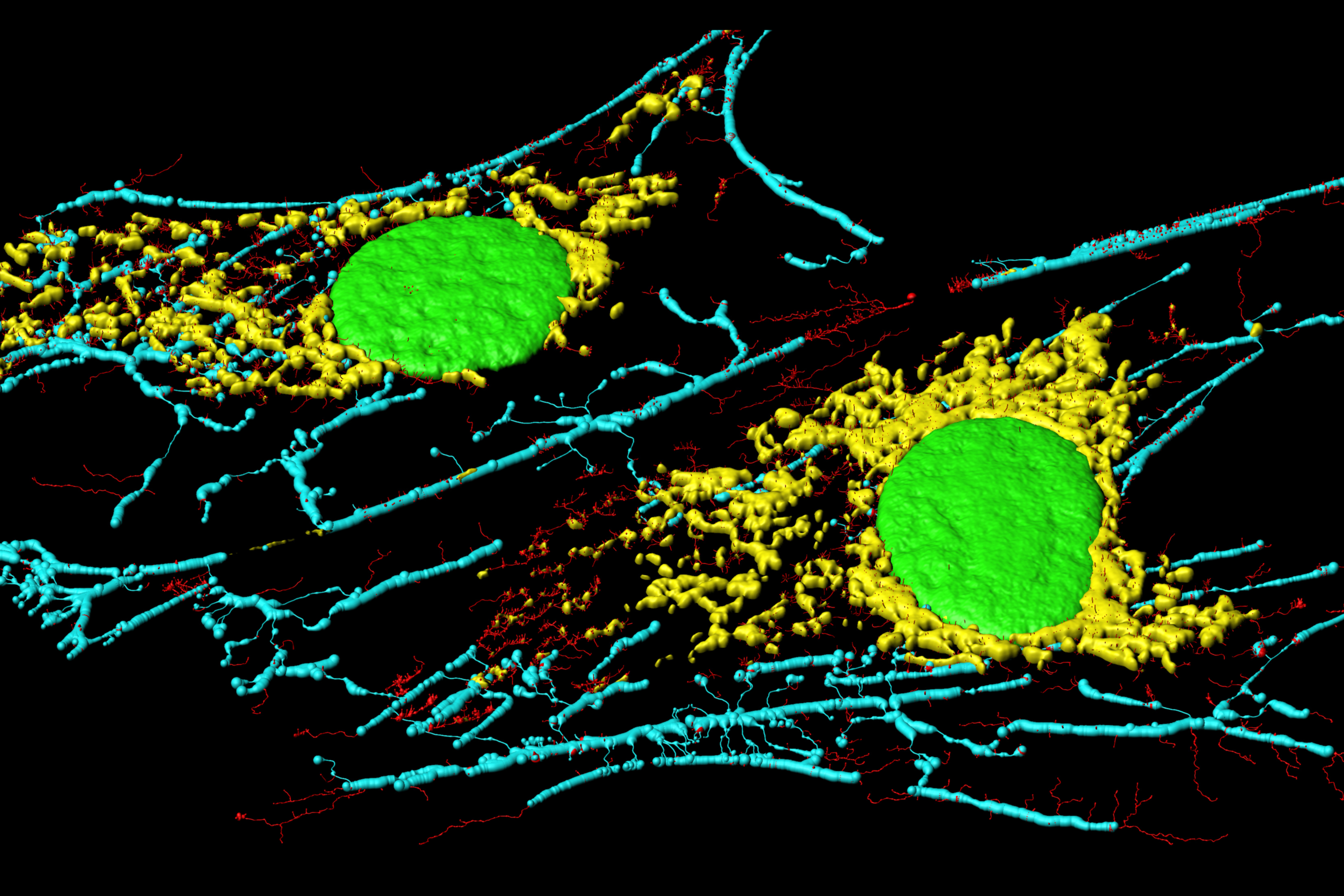 Microfilaments, Mitochondria and Nuclei in Fibroblast Cells Mitochondria (shown in yellow) cellular energy-producing organelles, which will complete decomposition of glucose and synthesized ATP Cell nuclei (shown in green) organelles whose function is to control cellular function and the transfer of genetic information through DNA-based chromosomes Microfilaments (shown in blue and red) cells found in actin cytoskeleton composed of the finer filaments, which take part in cell movement and shape change All of these organelles in cells stained with specific fluorescent dyes. The 3D model is constructed by using special software.